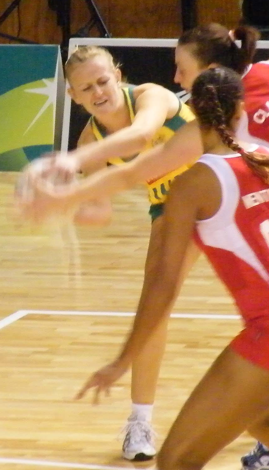 Australia v England Netabll Test - Adelaide, October 2008.